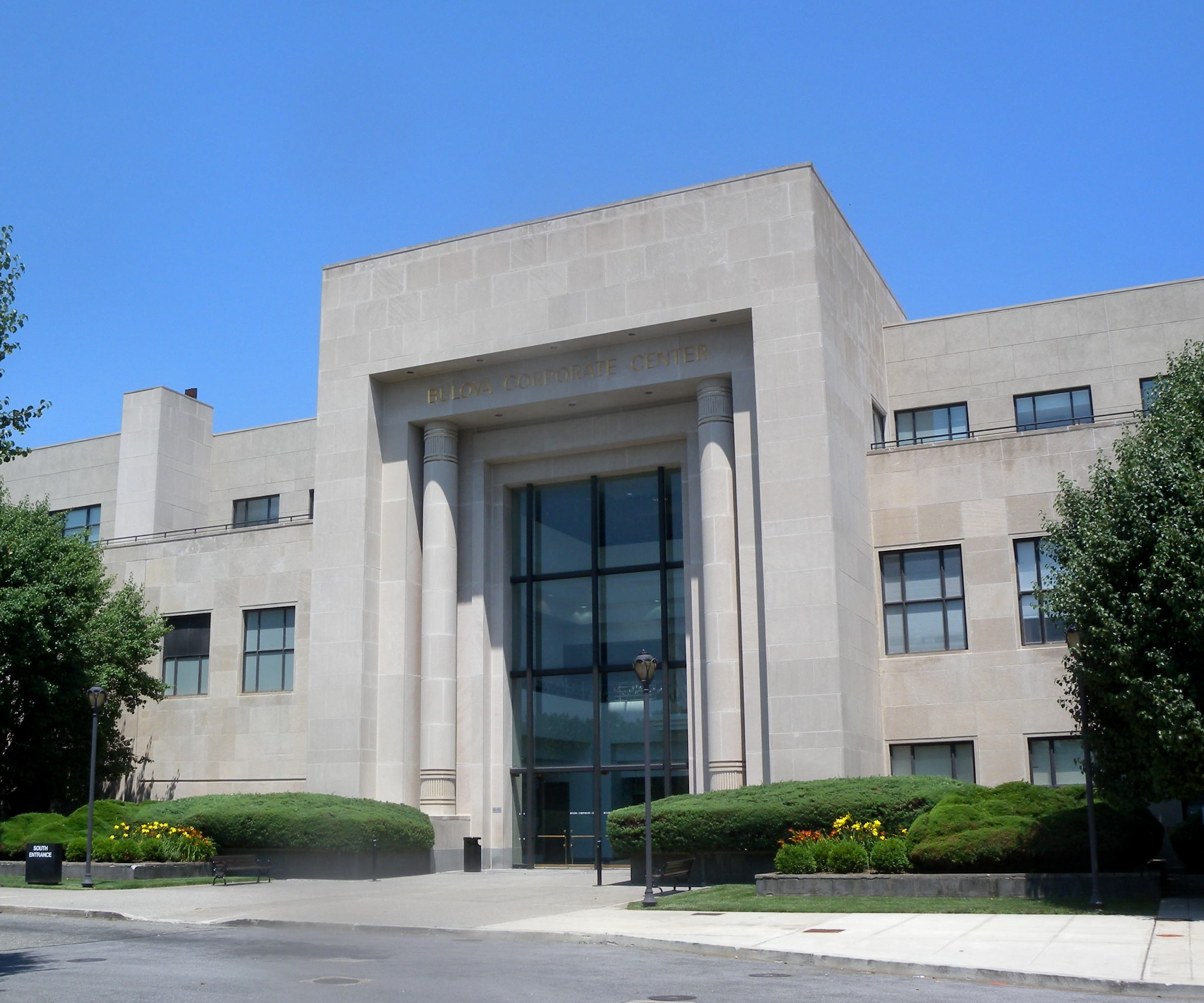 Looking northwest at grand entrance on a sunny late morning.